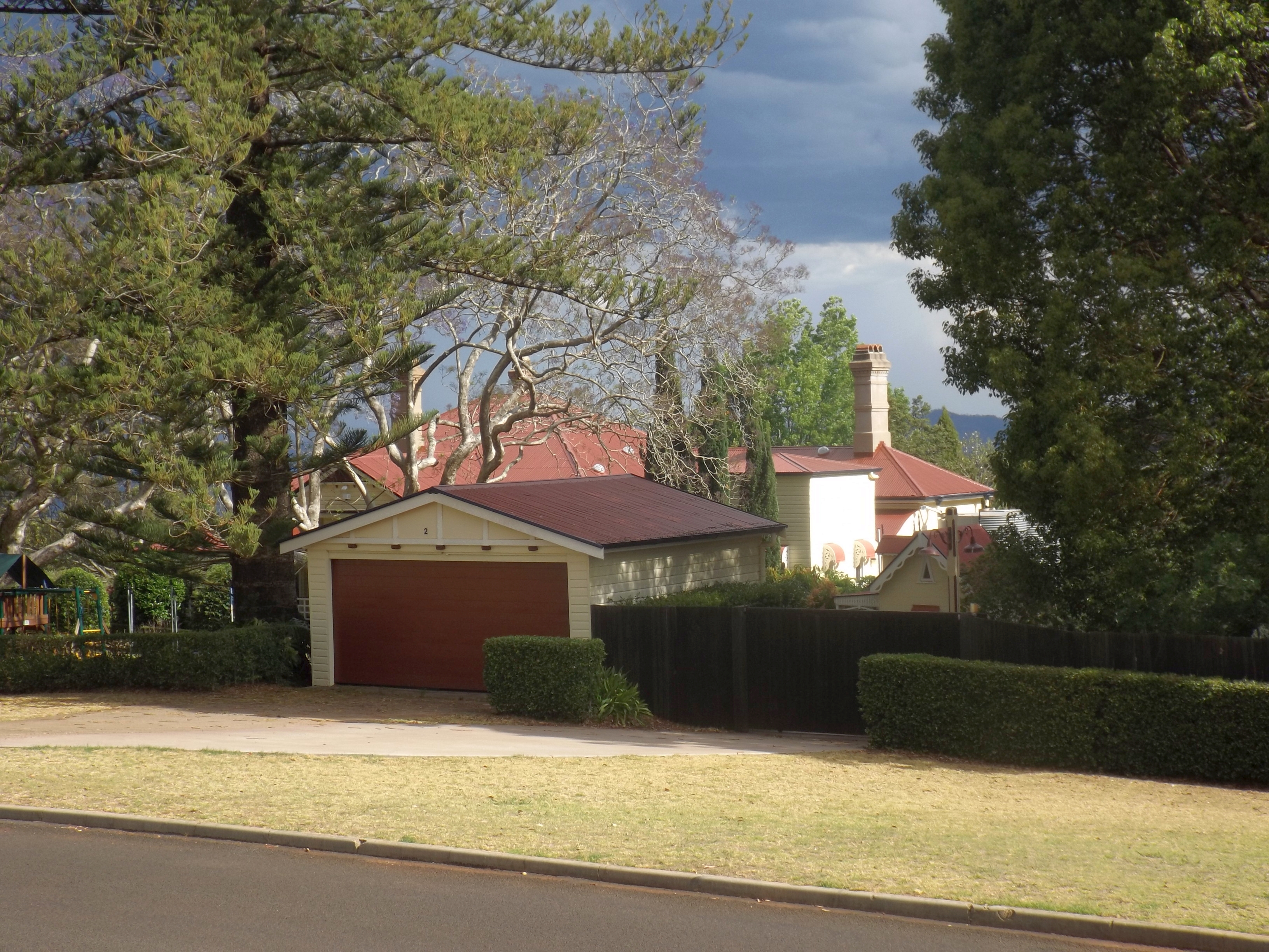 Photo of Rodway at Rangeville, Toowoomba, Queensland, Australia.